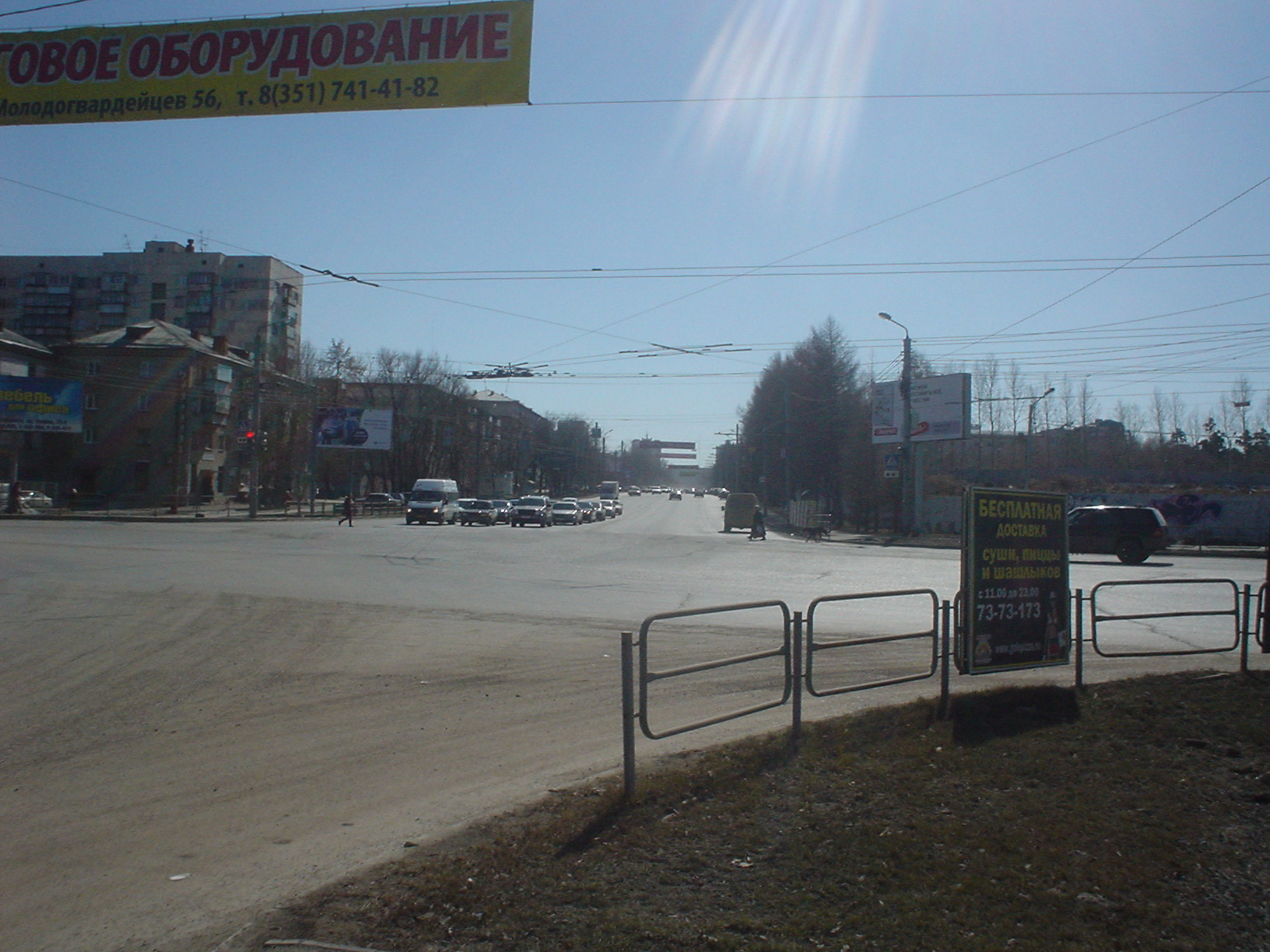 Engels street, view to the South from roadcrossing wit Truda street, Chelyabinsk, Russia